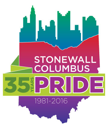 This is the official 2016 logo for the 2016 Stonewall Columbus Pride Festival and Parade. Created and uploaded by Columbus Pride presenter, Stonewall Columbus, Inc.